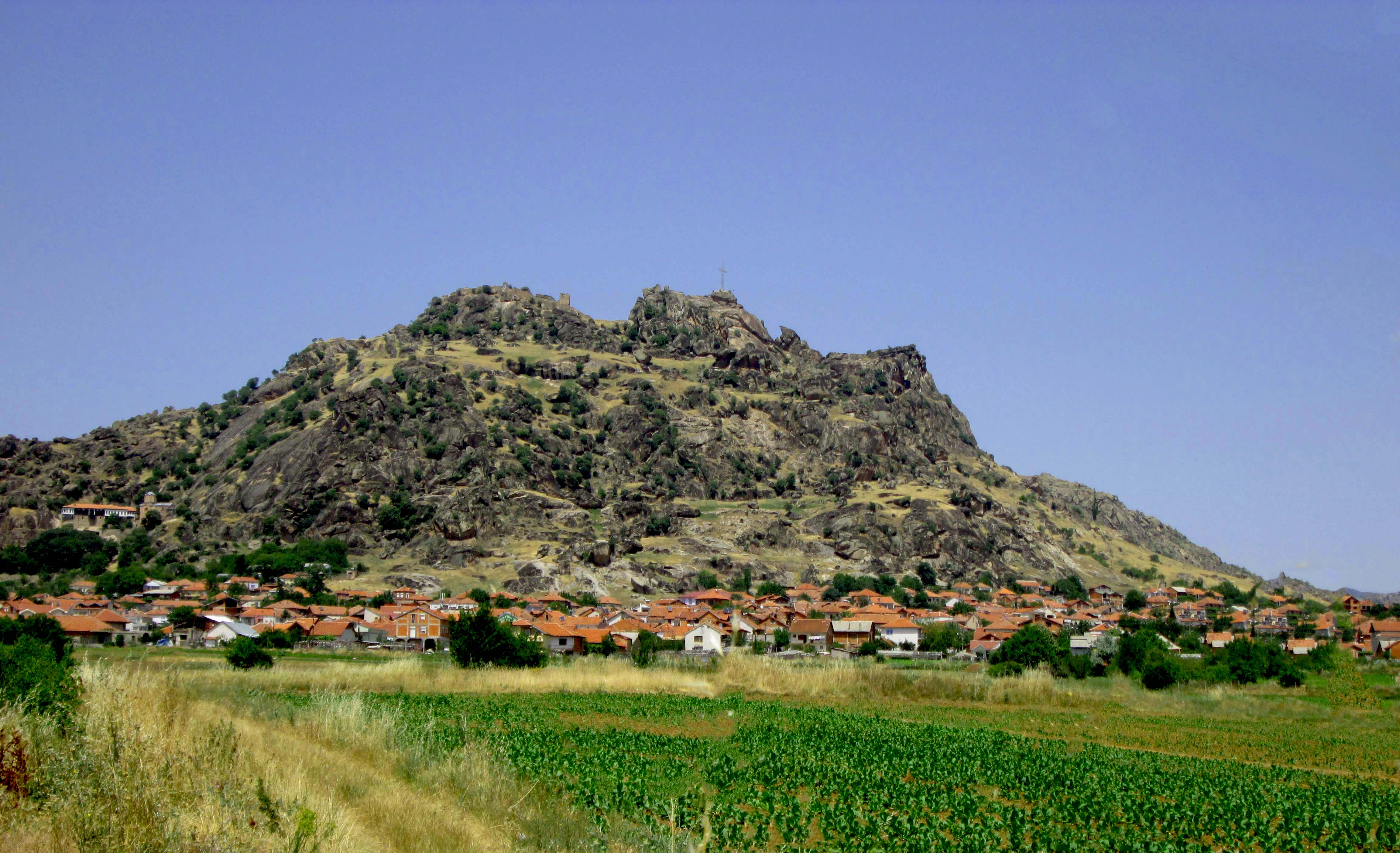 View to the Marko's Towers area on the Prilep City